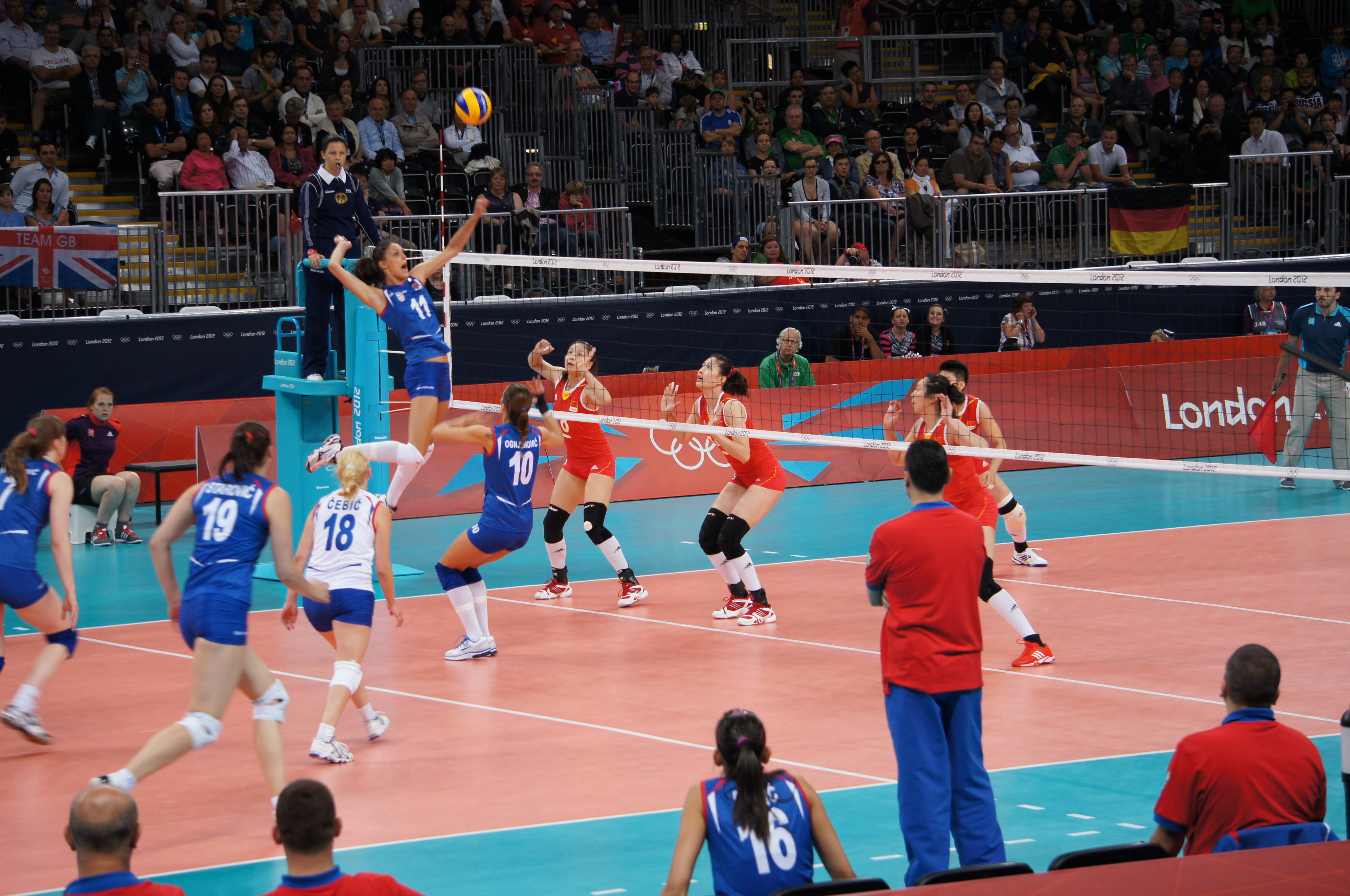 Volleyball at the 2012 Summer Olympics